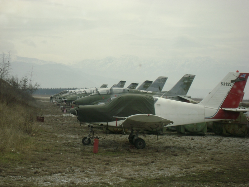 Montenegrian air force Utva 75 at golubovci airbase in 2006